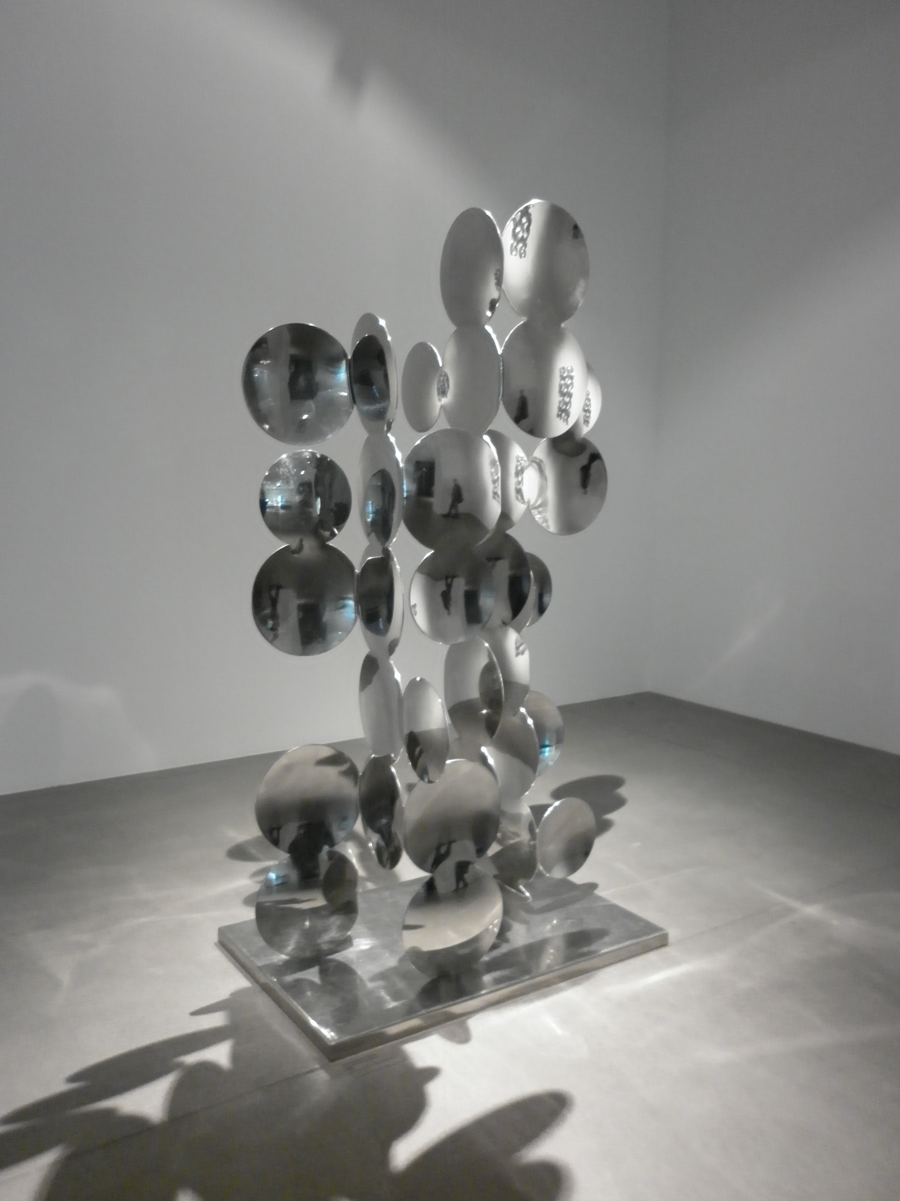 Lightbearing Forms sculpture. Part of the exhibition "Vojin Bakić retrospective" (December 6, 2013 - March 2, 2014) in the Museum of the Contemporary Art in Zagreb.